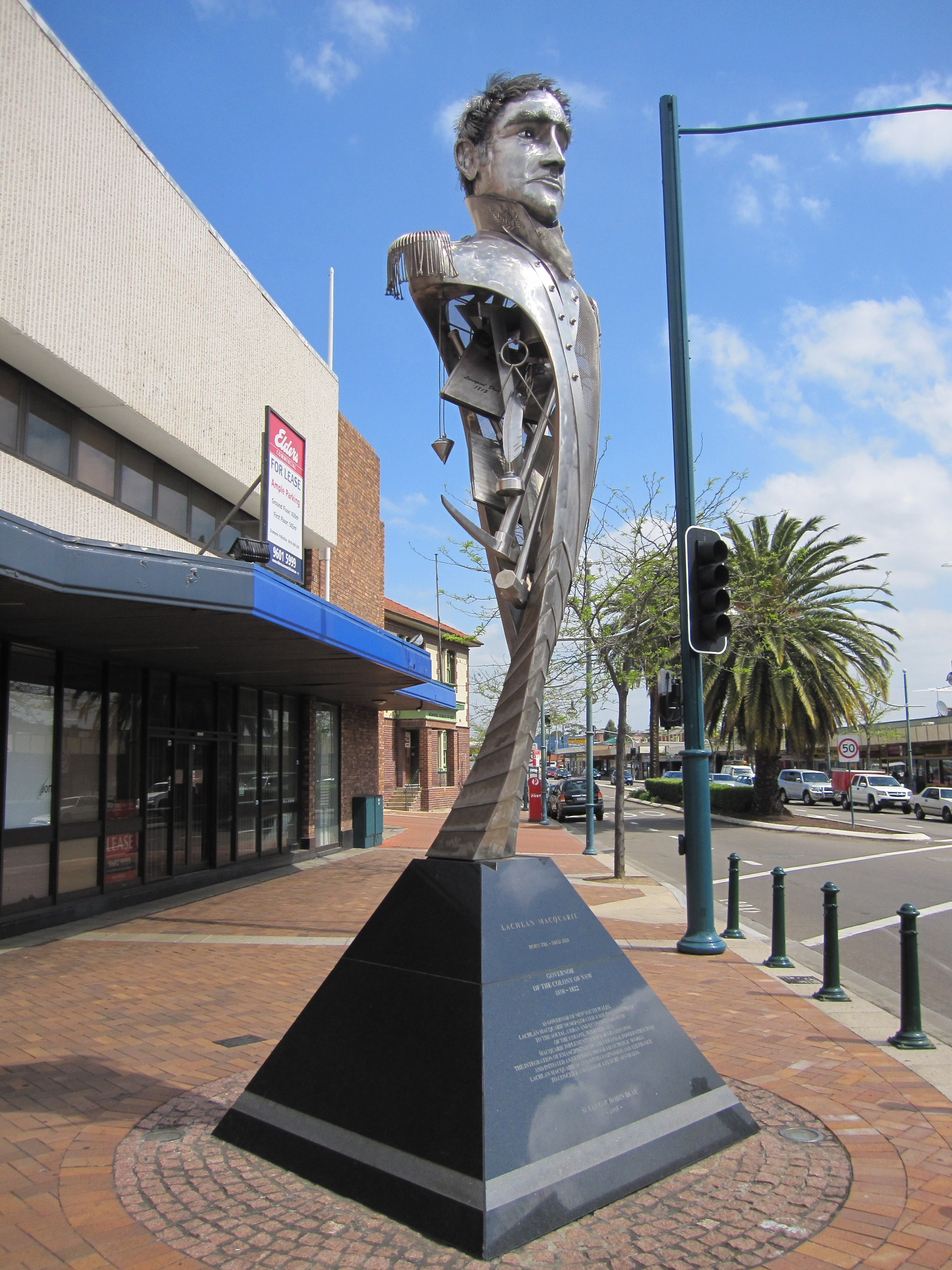 Statue of Lachlan Macquarie, Liverpool, Sydney